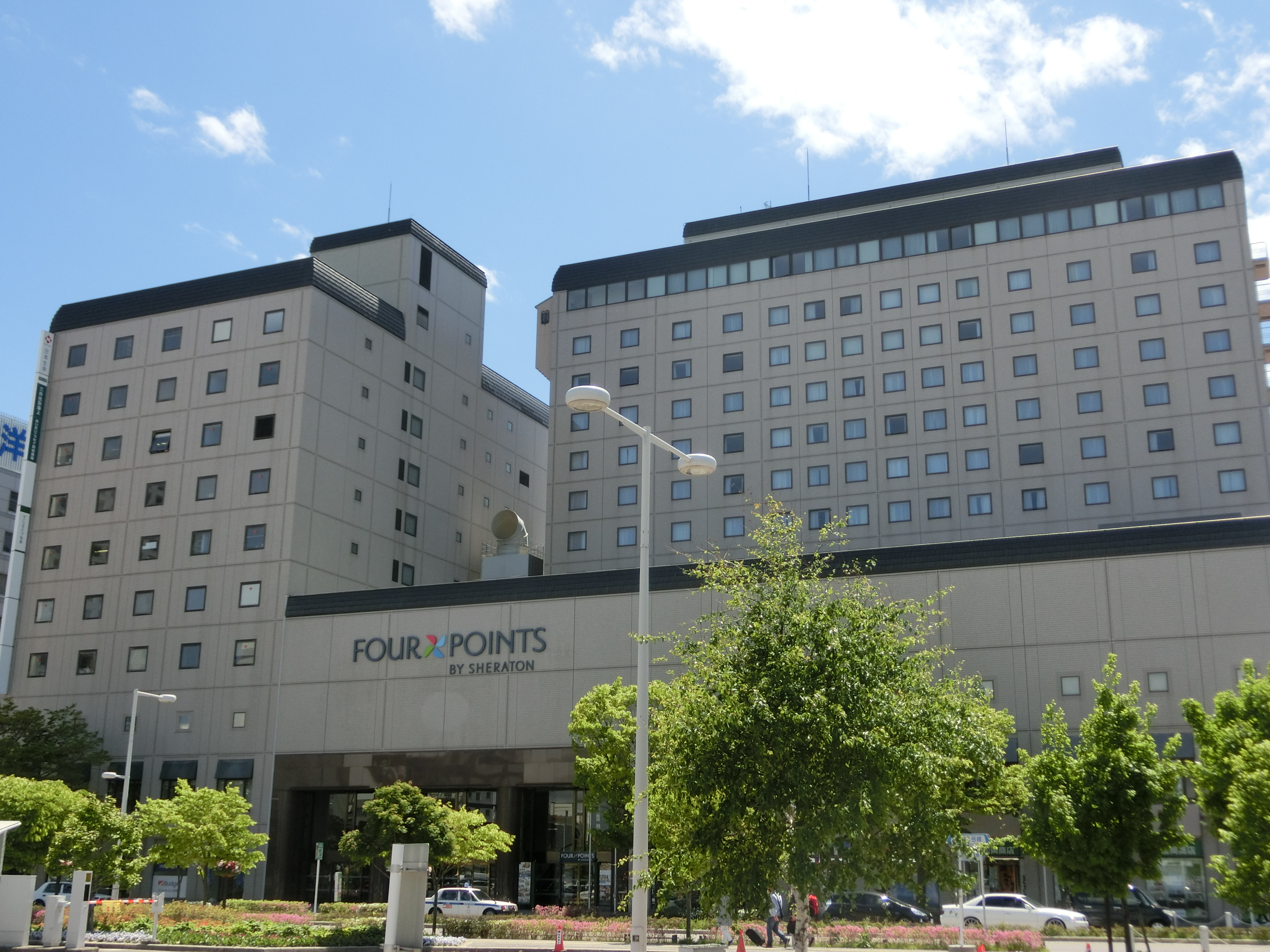 Four Points By Sheraton Hakodate